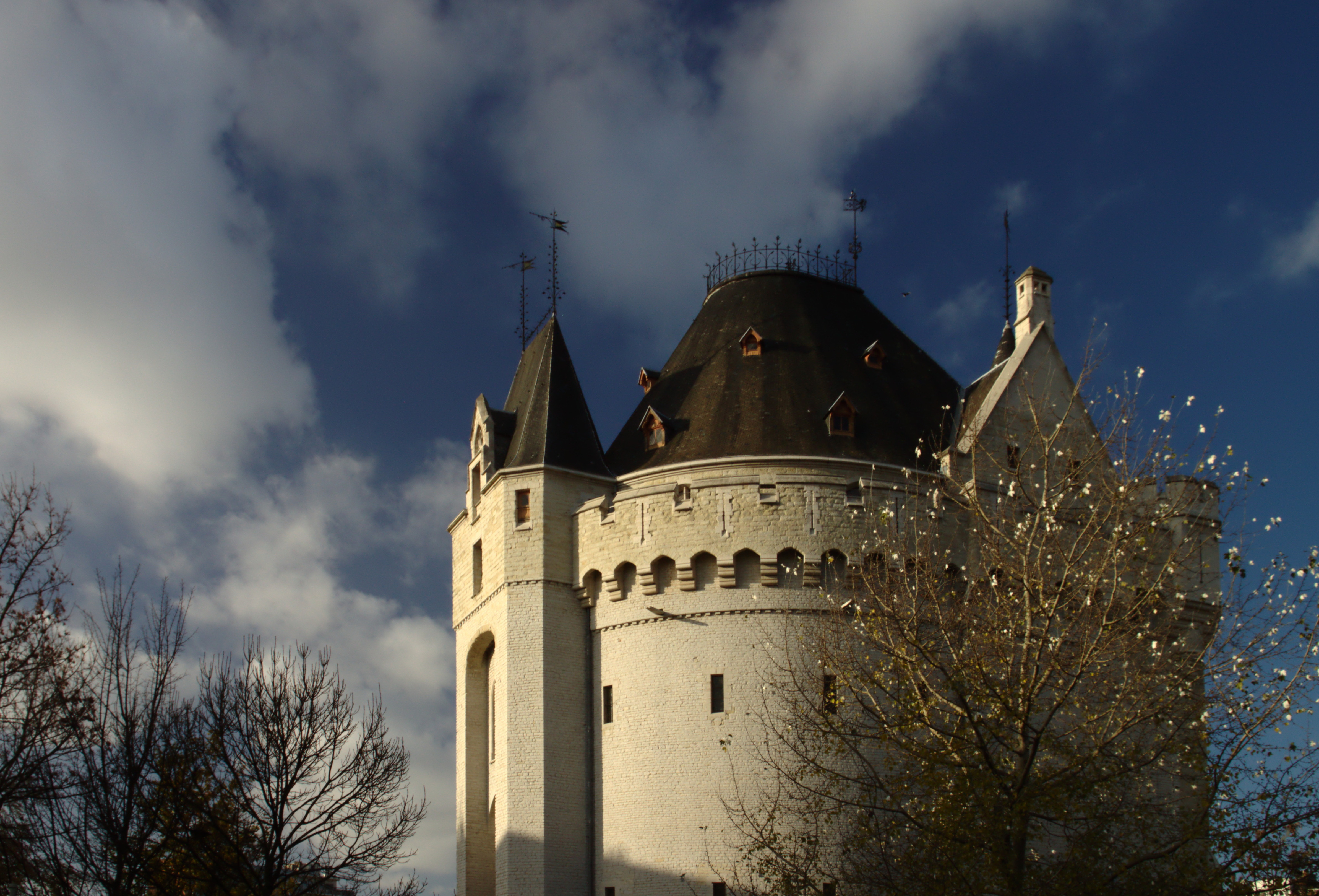 Porte de Hal Gate, Brussels, Belgium